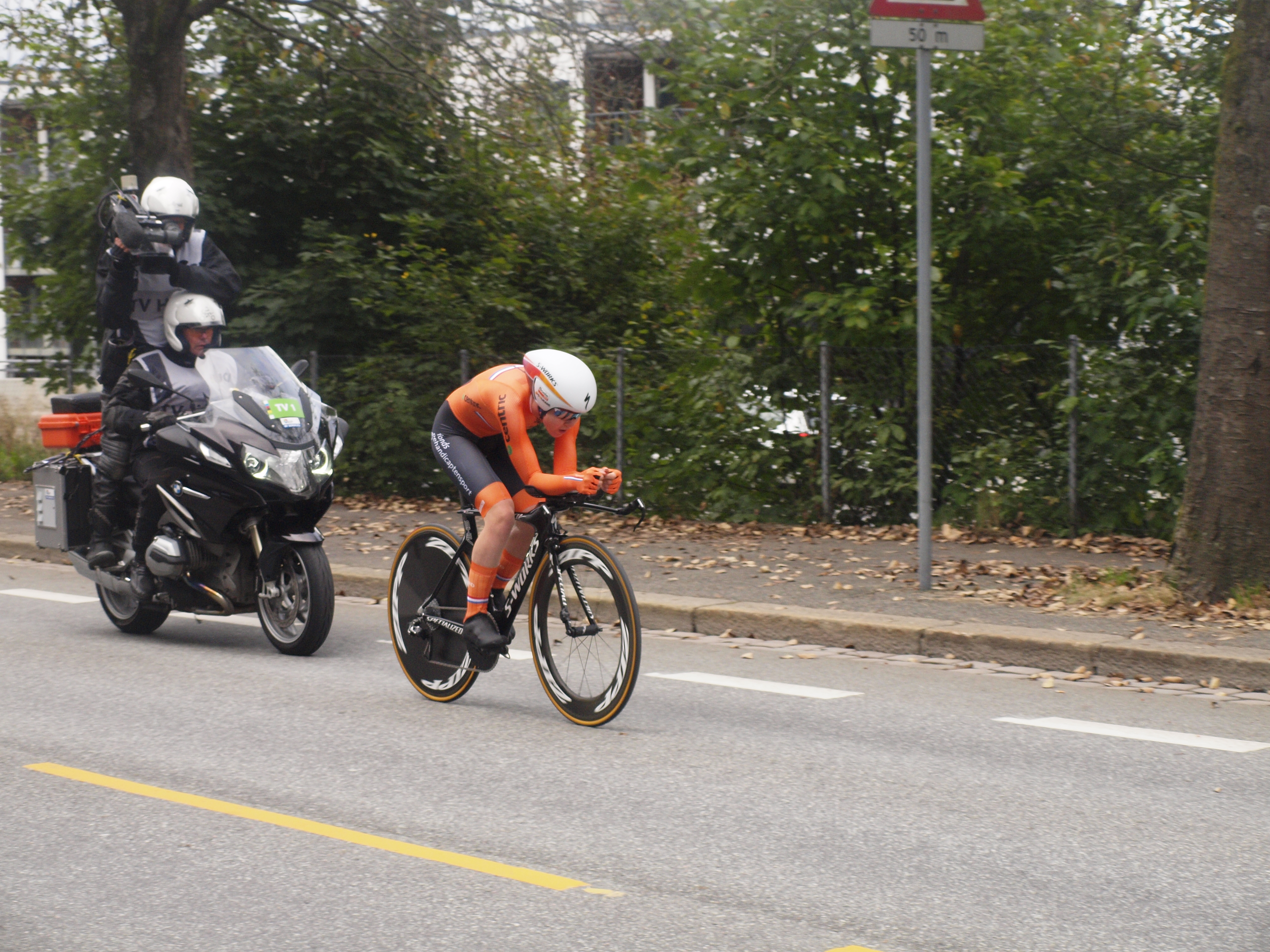 Anna van der Breggen at the 2017 UCI World Championships